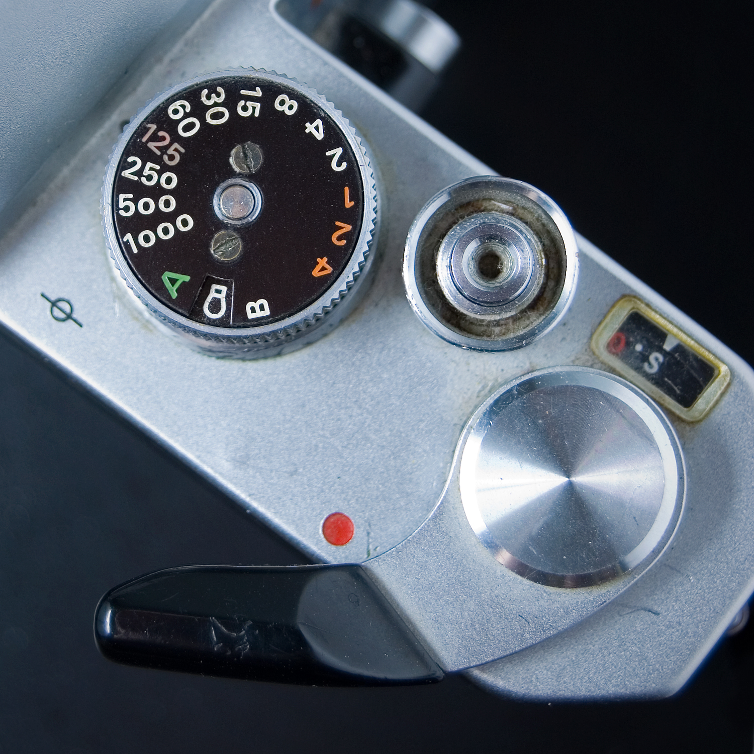 The exposure time selection dial on Nikkormat (Nikomat) EL.